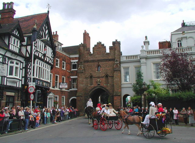 The Walkington Hayride, Beverley, East Riding of Yorkshire, England.Participants in the Walkington Hayride pass through the North Bar gate on their way into Beverley town centre. The charity event was founded by Ernie Teal in 1967 but this is expected to be the last procession due to dwindling numbers of heavy horses and horsemen. North Bar (the brick arch in the centre of the picture) is the only one remaining of a number of gates which once guarded the entrances to Beverley. It was built by the town council in 1409 and cost a fraction over £96.